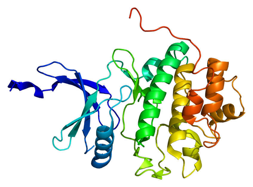 Structure of the CHEK1 protein. Based on PyMOL rendering of PDB 1ia8.